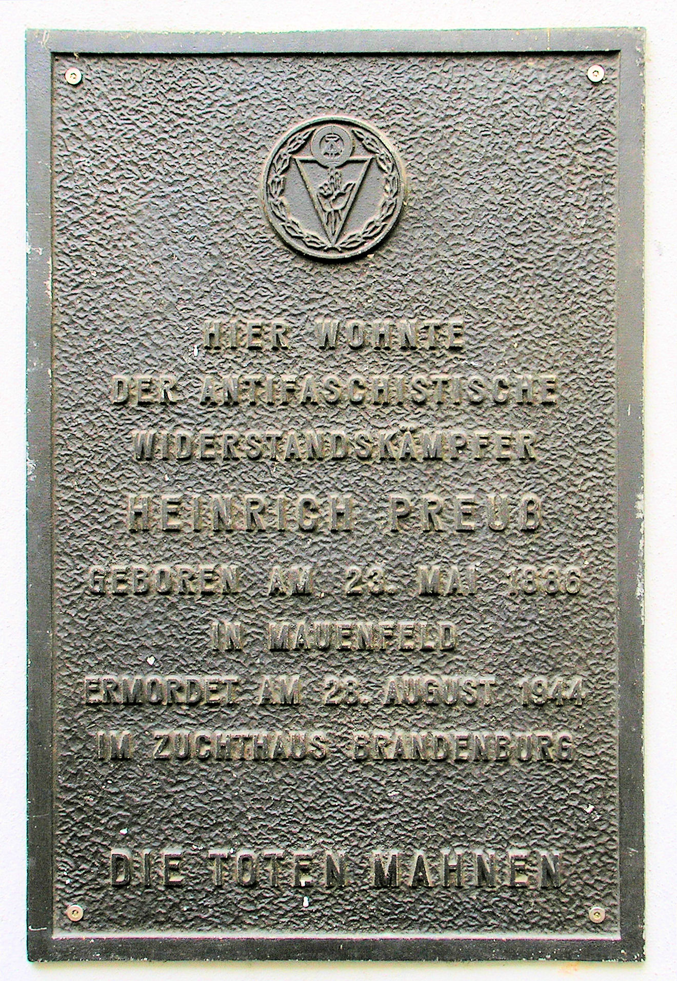 Memorial plaque, Heinrich Preuß, Stargarder Straße 13, Berlin-Prenzlauer Berg, Germany